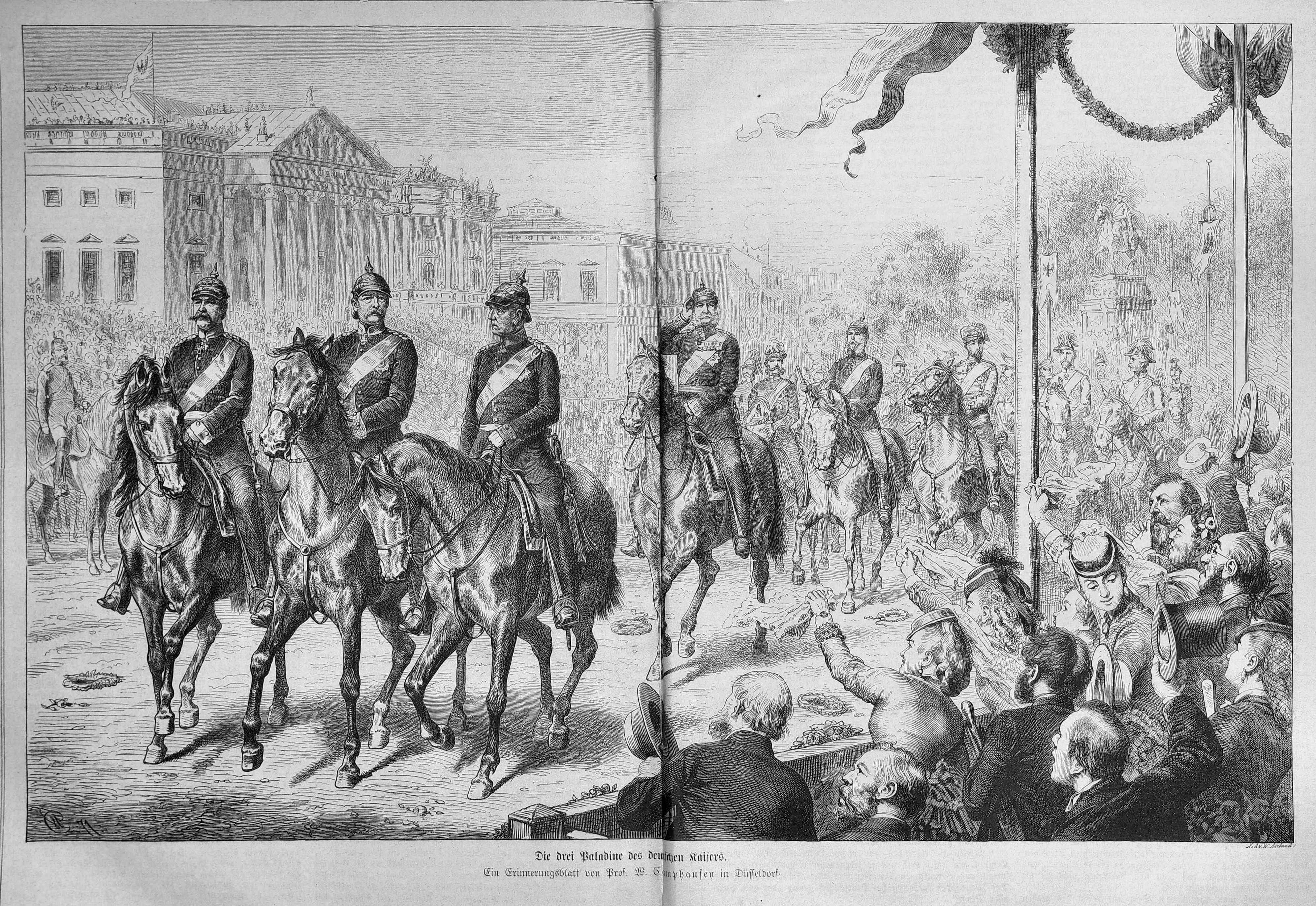 caption: "Die drei Paladine des deutschen Kaisers.Ein Erinnerungsblatt von Prof. W. Camphausen in Düsseldorf."